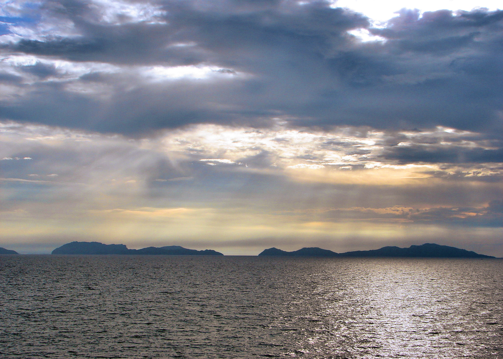 North and South Gigante Islands (right and left respectively), Iloilo Province, the Philippines